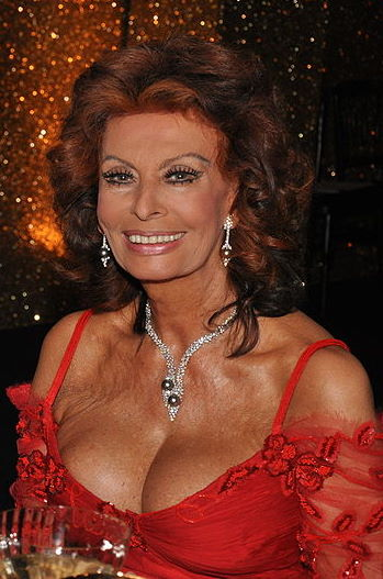 Joan Collins and Sophia Loren, 2009.